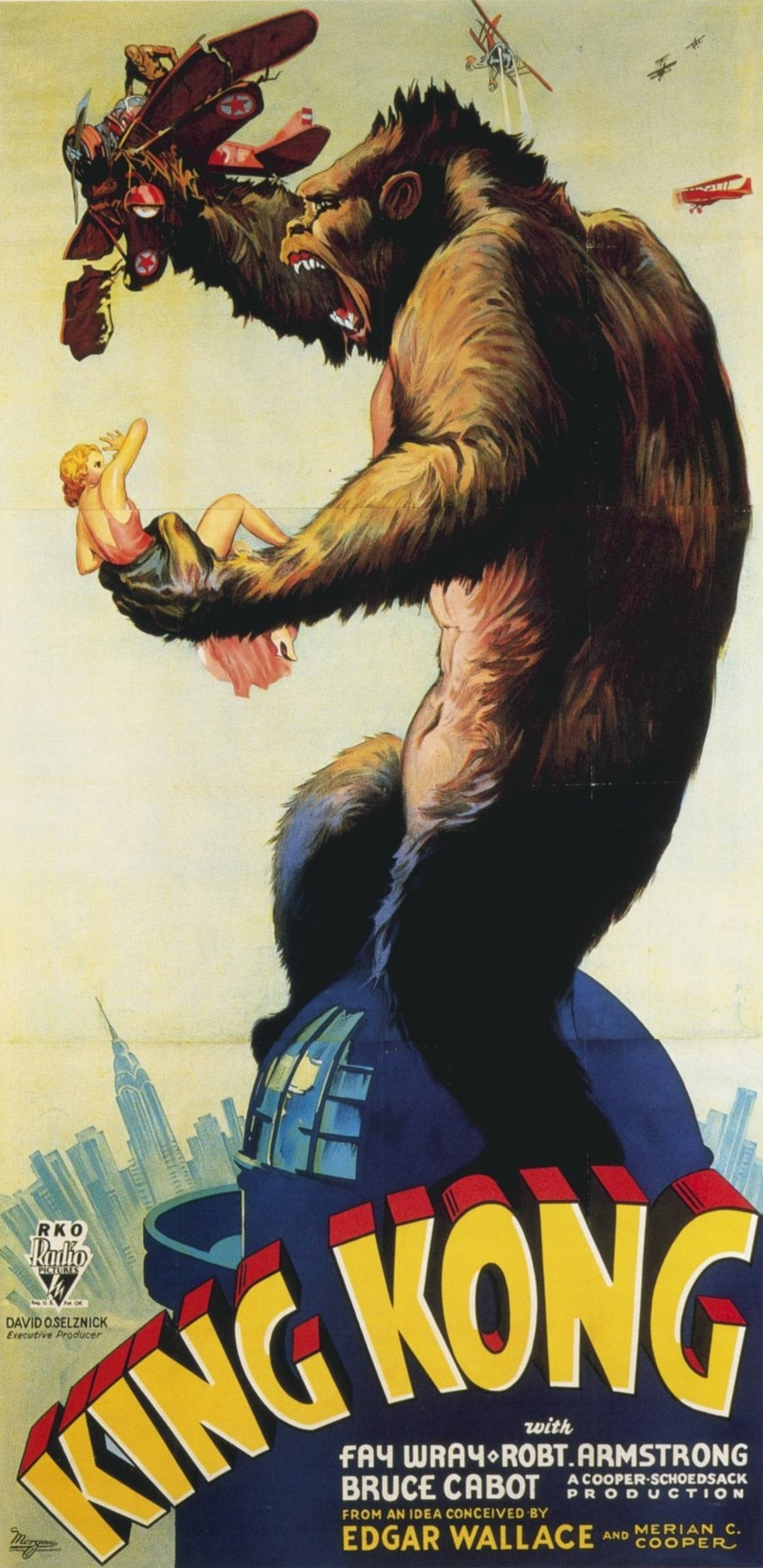 This is a scan of the original publicity poster for King Kong (1933)